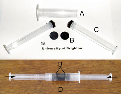 Frit compression system for carbon nanotubes. A - syringe column, B - polypropylene frits, C - plungers, D - suspension of carbon nanotubes